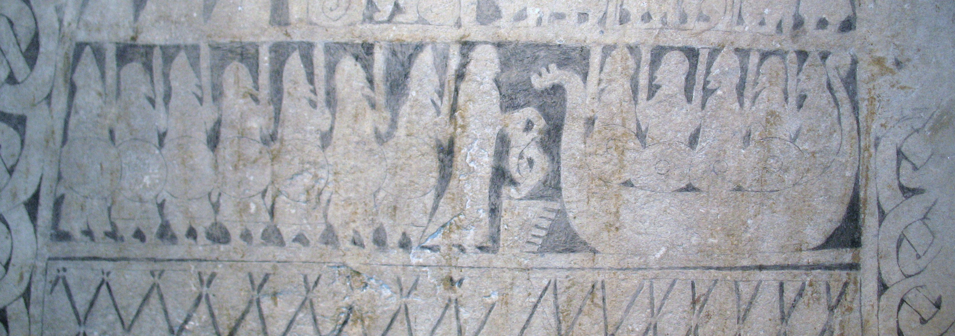 stone